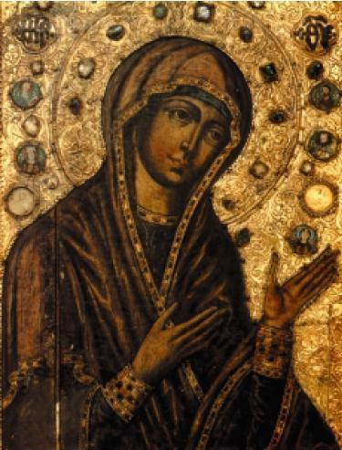 Theotokos icon from Vardzia, Georgia